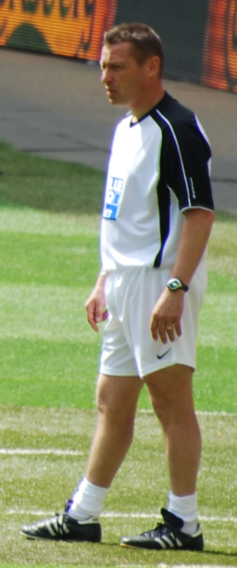 Andy Porter. Image cropped from original at flickr.